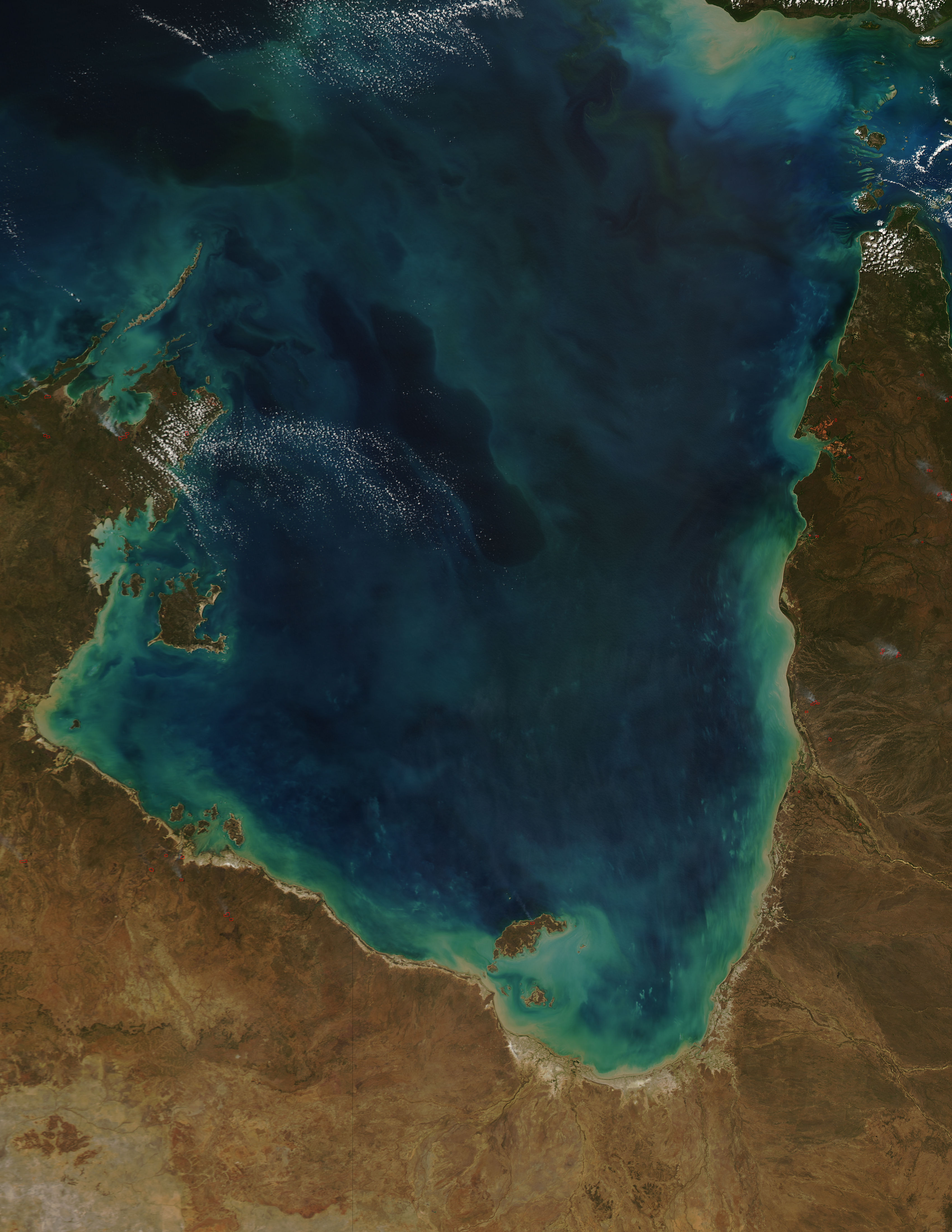 The Gulf of Carpentaria is the name of the large, shallow body of water that is cut into the center of the northern coast of Australia. Northern Australia bounds it on three sides - and the northern side of the Gulf is bounded by the Arafura Sea, which lies between Australia and New Guinea.